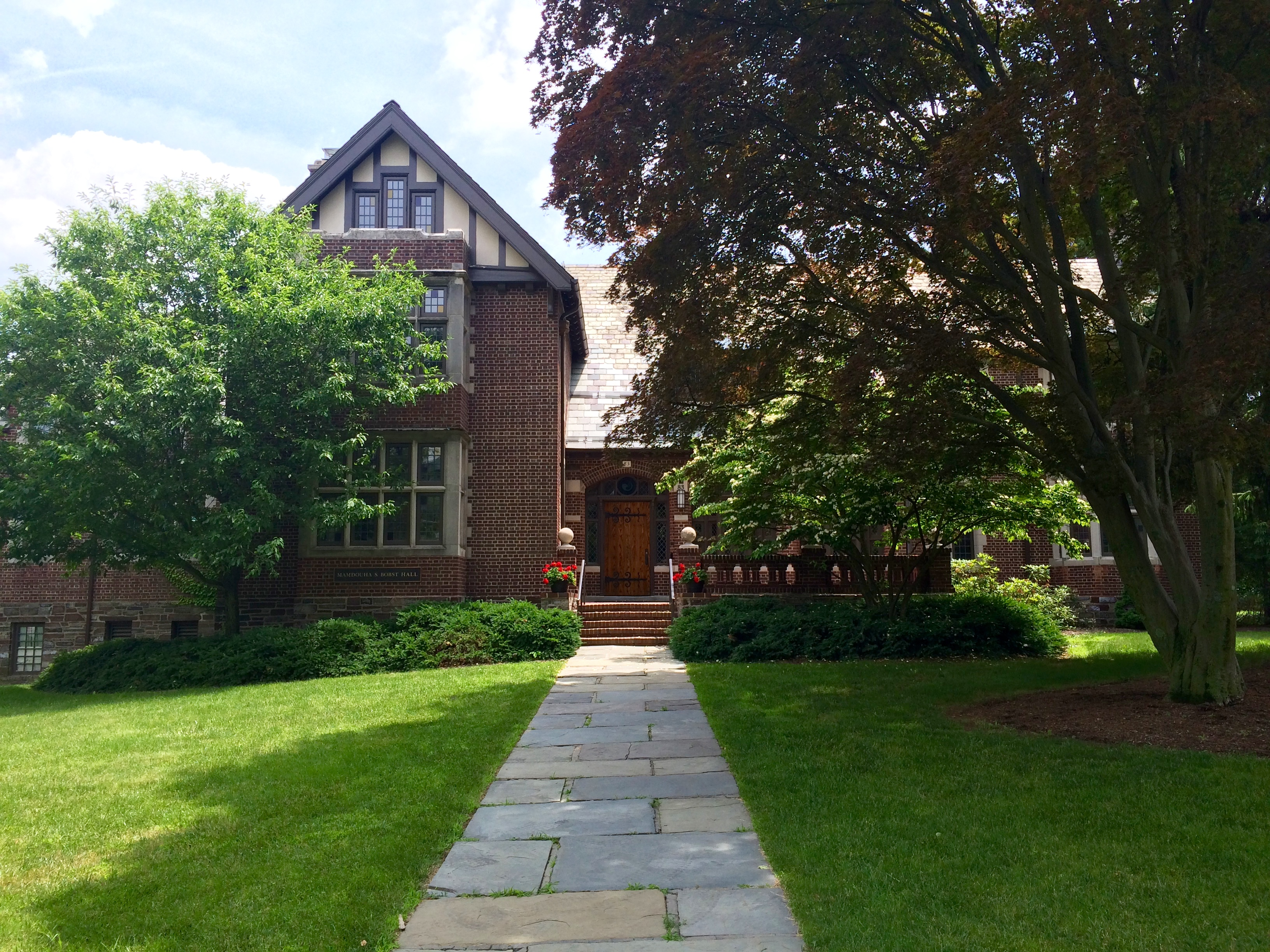 Bobst Hall of Princeton University at 83 Prospect Avenue, Princeton, New Jersey. Formerly the Key and Seal Club (1904-1968), one of the eating clubs of the university. Part of Stevenson Hall (1968-2001), along with neighboring 91 Prospect, an alternative dining hall for Princeton upperclassmen. Built in 1925 and designed by Walter H. Jackson.